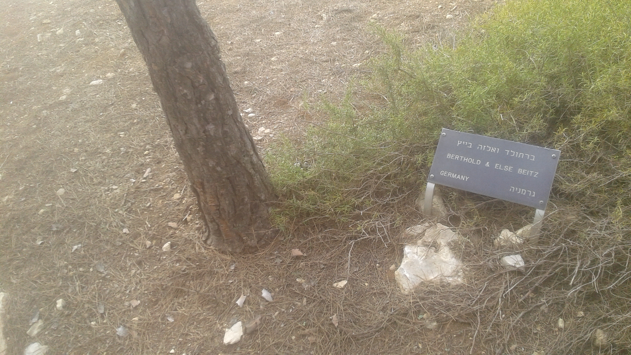 Berthold Beitz Righteous Among the nations tree at Yad Vashem